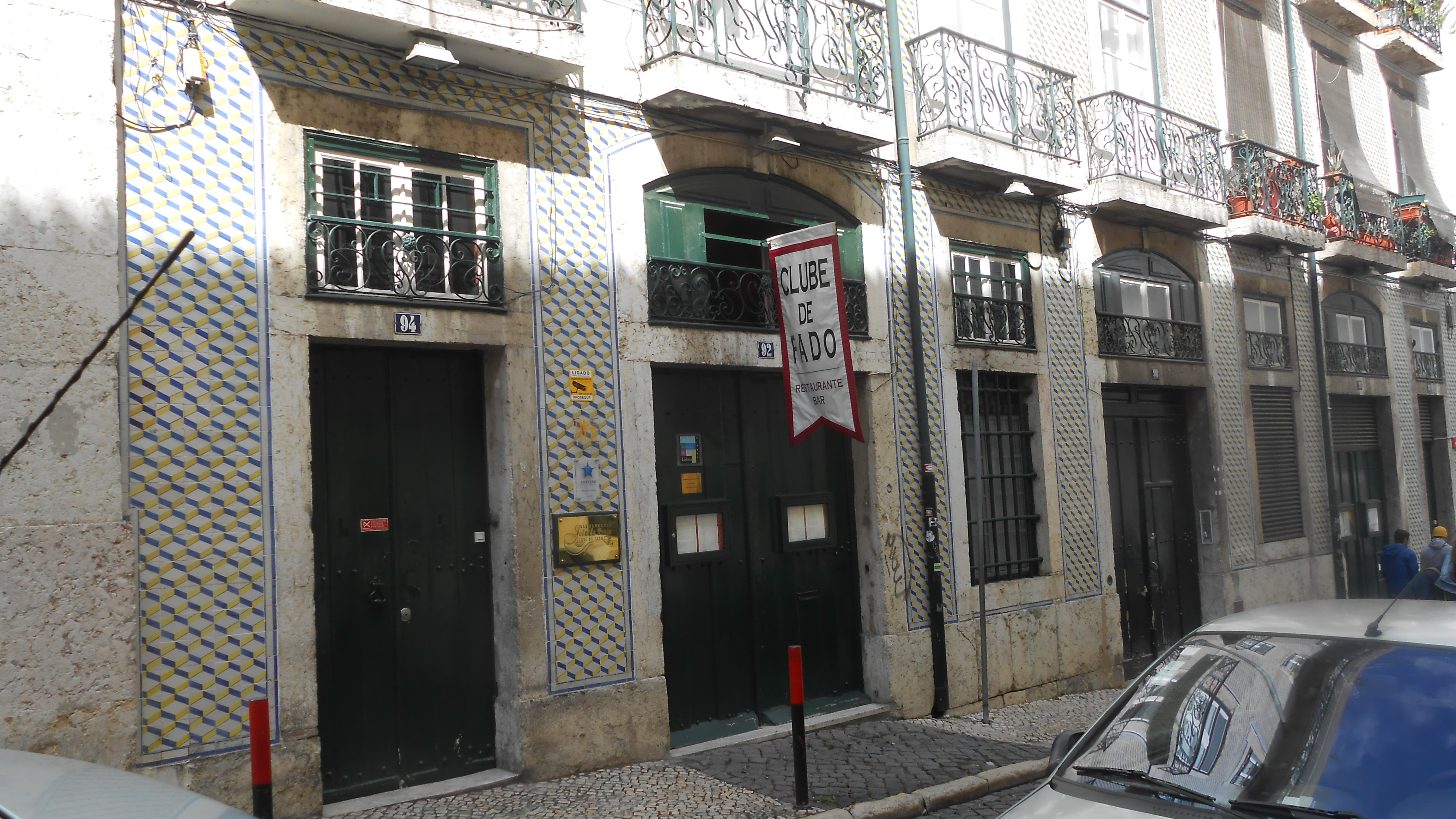 The known Clube de Fado in the Alfama quarter in Lisbon